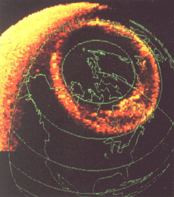 Diffuse aurora observed by DE-1 satellite from low Earth orbit